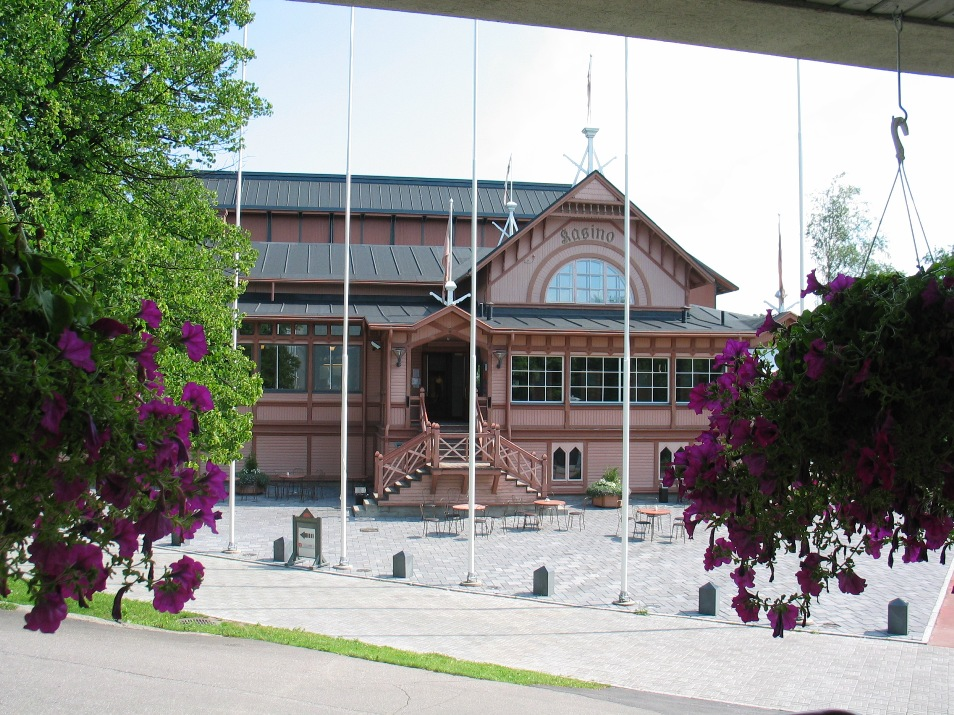 Restaurant Wanha Kasino (Old Casino) in Savonlinna, Finland